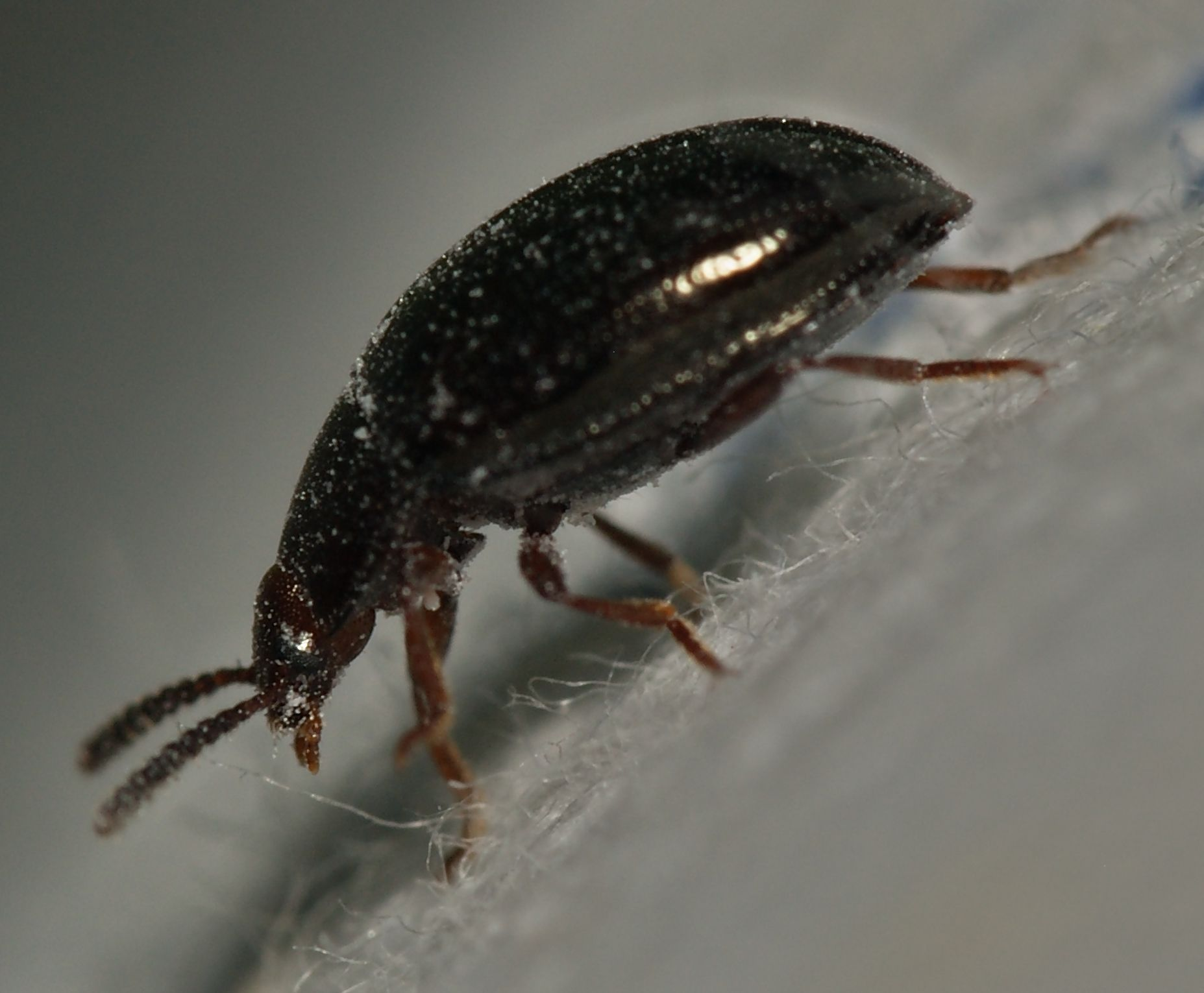 Scaphidema metallica from Cologne,Germany.